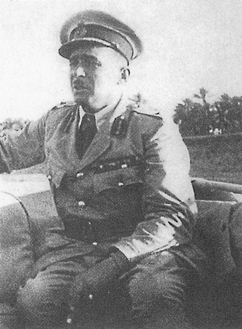 General Sir Edmund Ironside, commander of British forces in Iran, 1920.